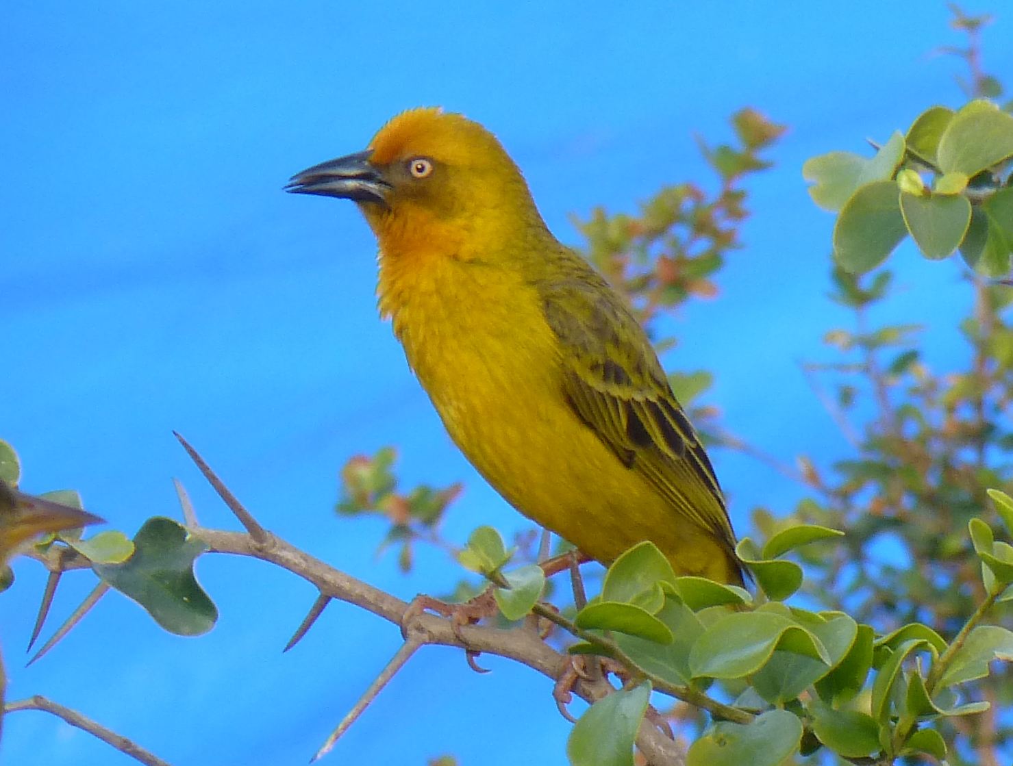 Ploceus capensis, in Klein-Brakrivier, South AfricaSouth Africa